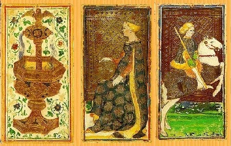 Reproduction of 3 cards from the Pierpont-Morgan Bergamo Visconti-Sforza Deck.